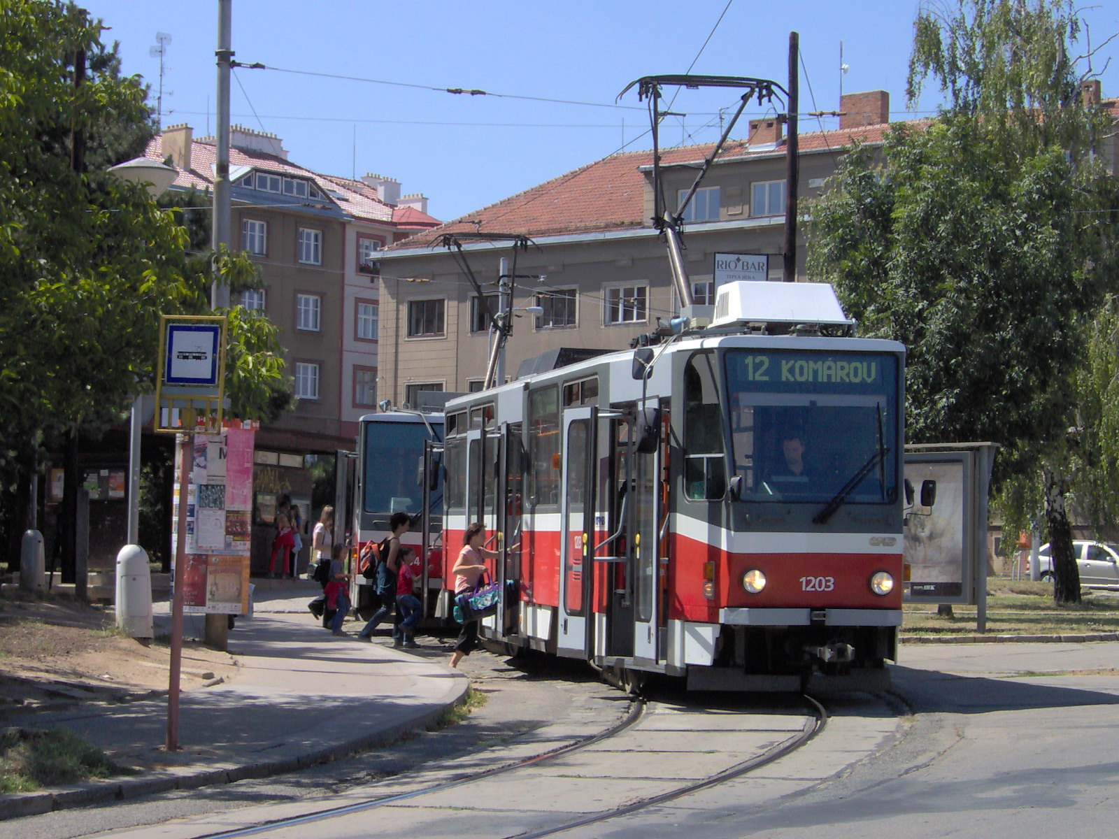 Tram loop Masarykova čtvrť, náměstí Míru in Brno, Tatra T6A5 trams